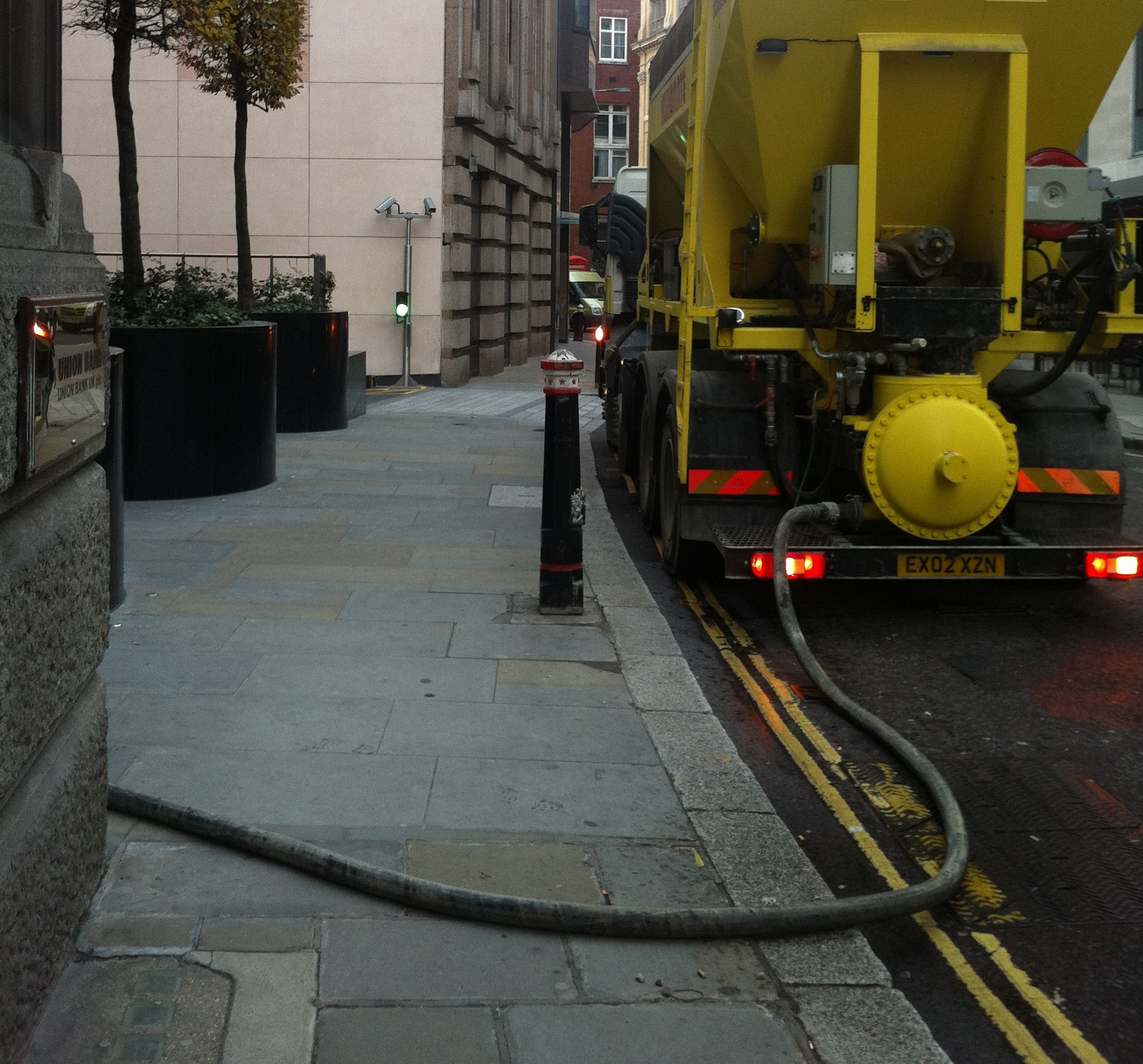 In the UK there is now a vehicle that delivers ready mixed screed direct to the site and pumps it to where it is to be laid. This location is Copthall Avenue in The City of London.